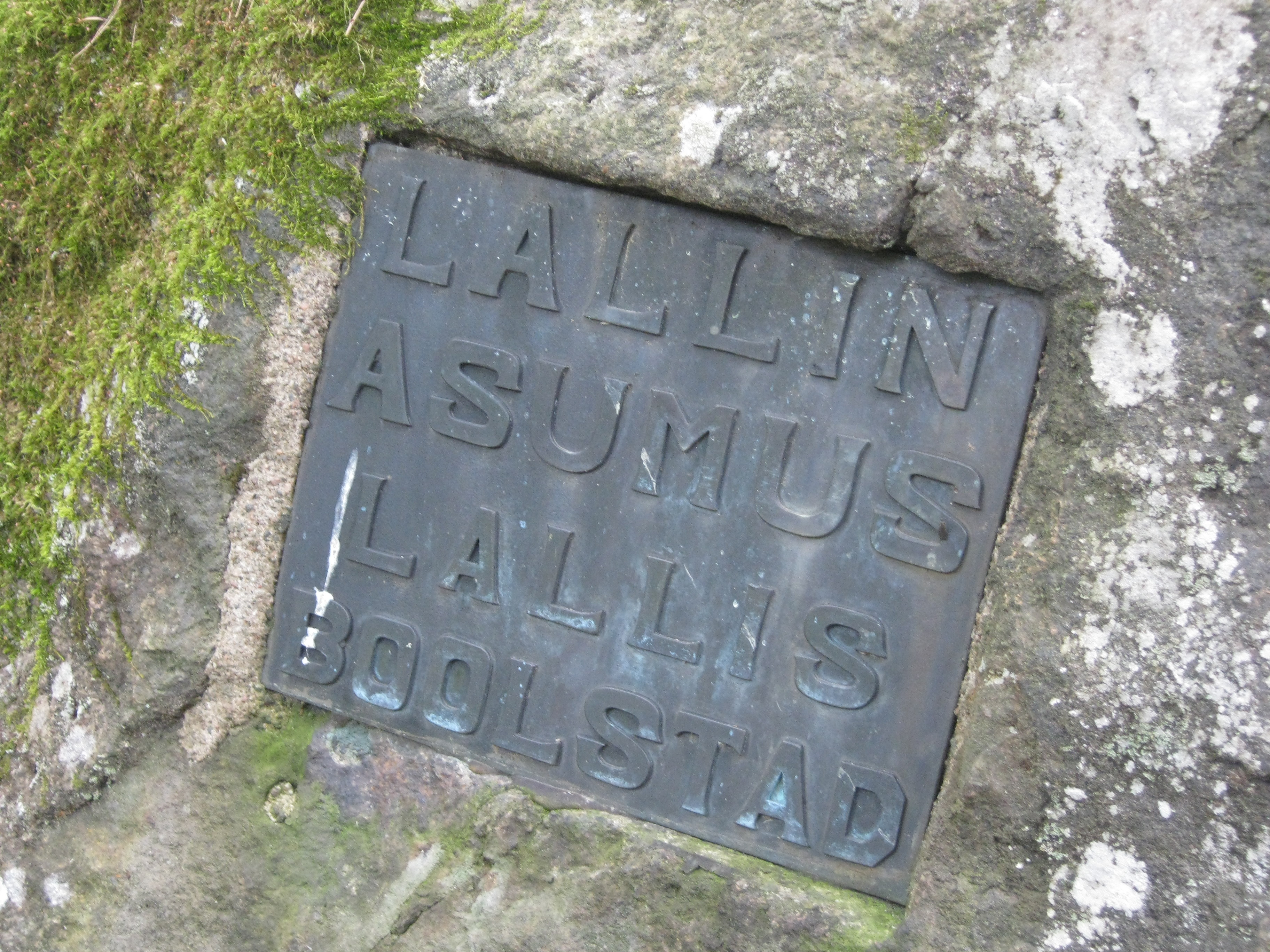 Traditional settlement of peasant Lalli, Köyliö, Finland.